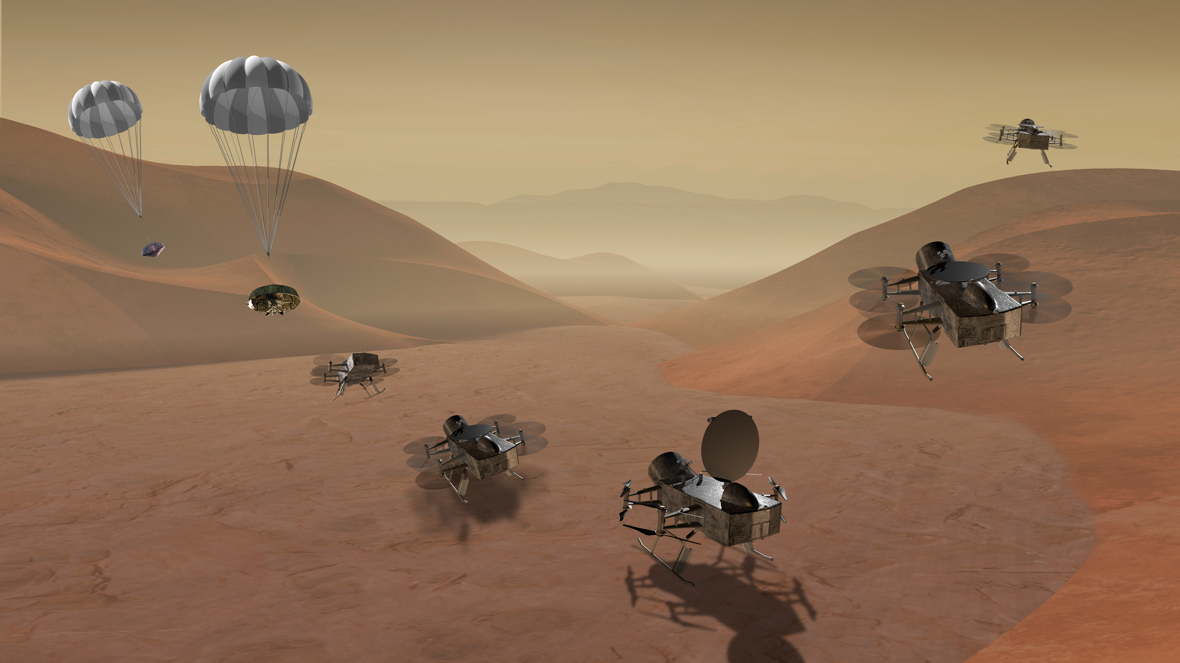 NASA graphic showing Dragonfly mission arriving on Saturn's moon Titan, and flying in its atmosphere.